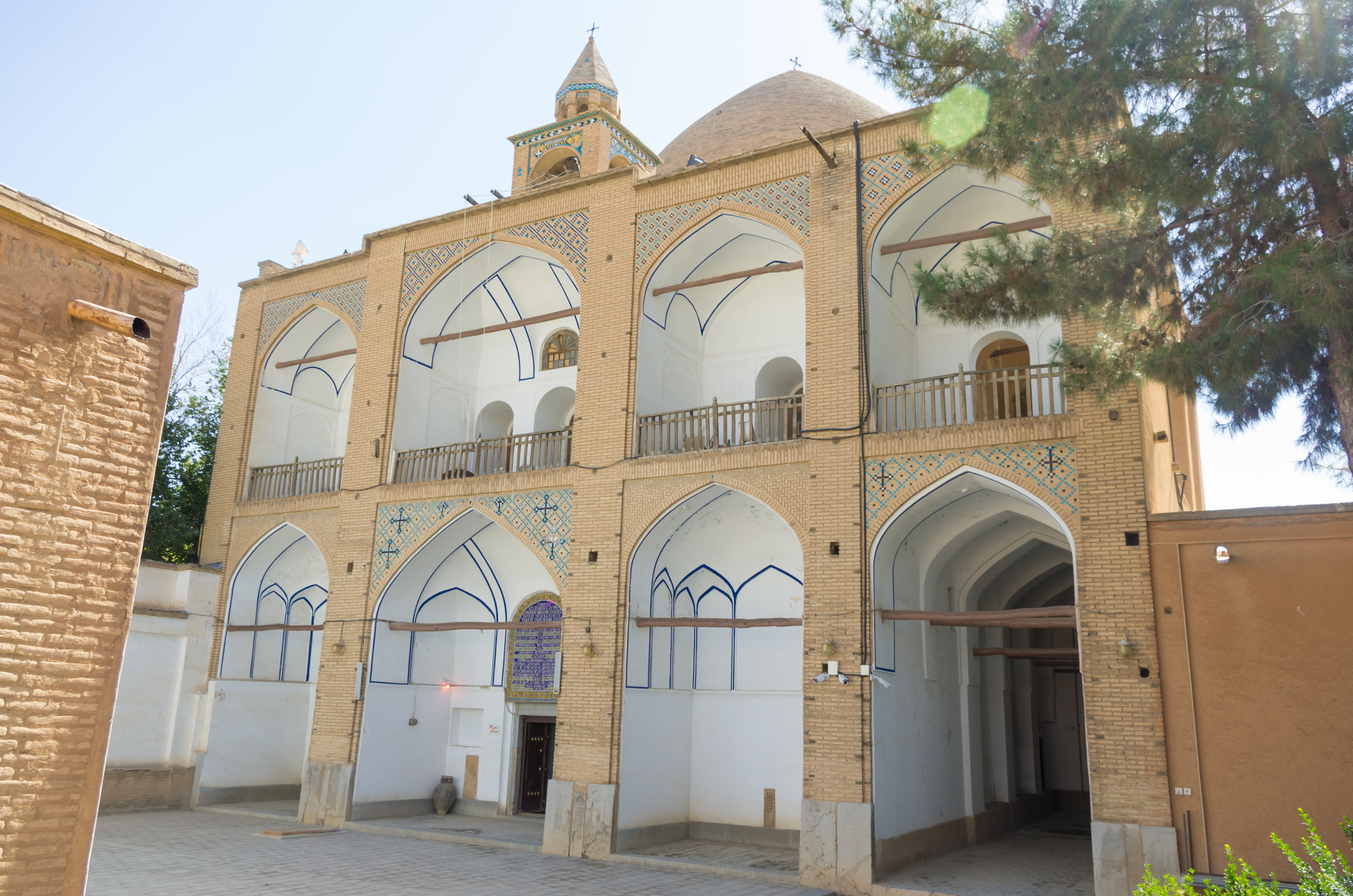 Bedkhem Church in the Julfa quarter in Isfahan, Iran.